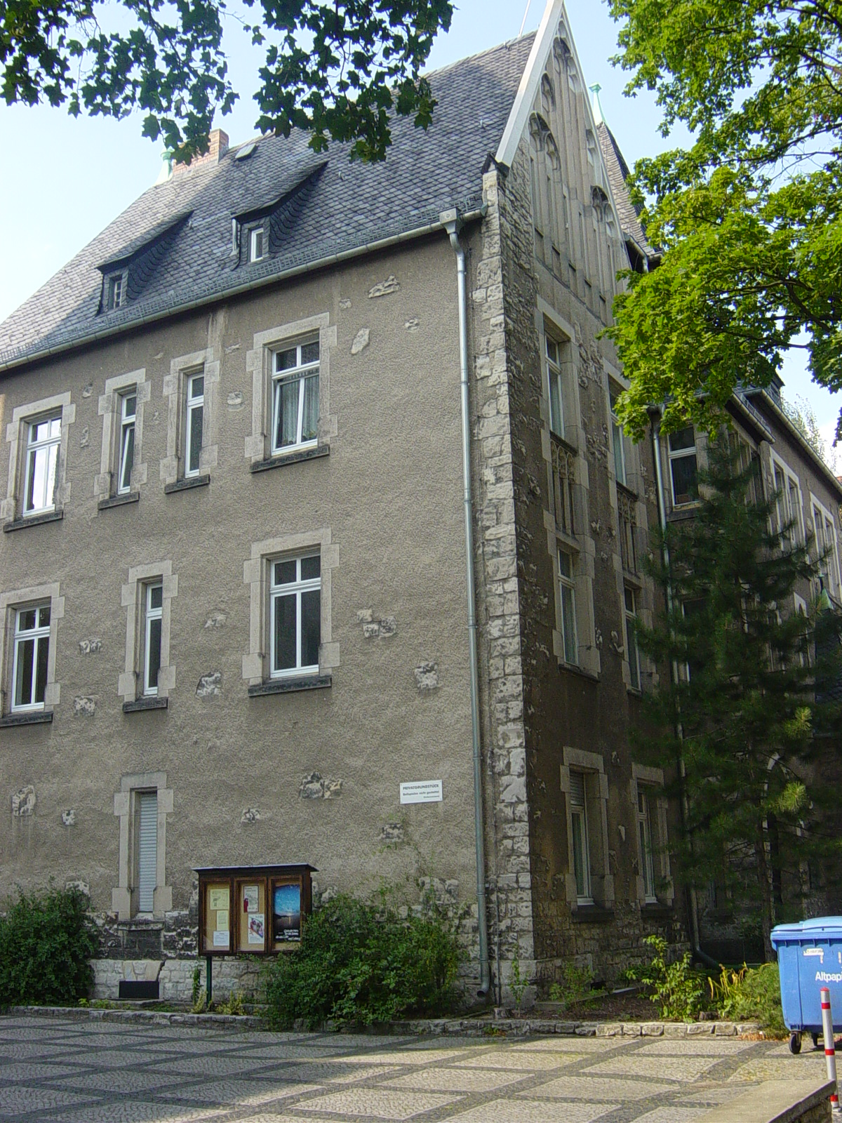 Rectory built by Bernhard Lichtenberg in Berlin-Karlshorst, Gundelfinger Straße 36.